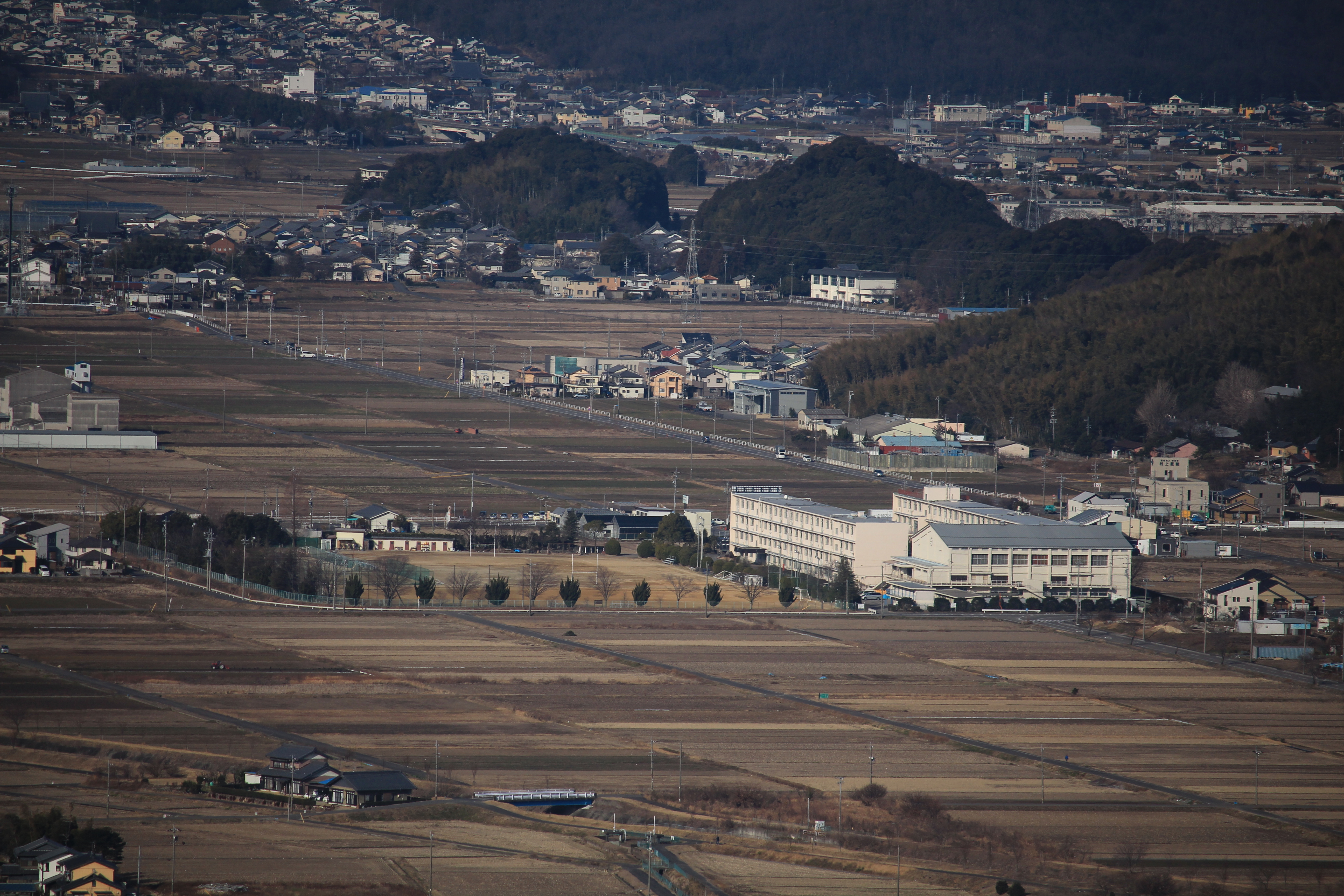 Kakamihara high school seen from Mount Atago, in Gifu prefecture, Japan.